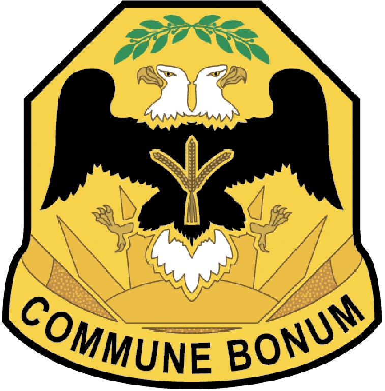 United States Army Chemical Materials Agency DUI